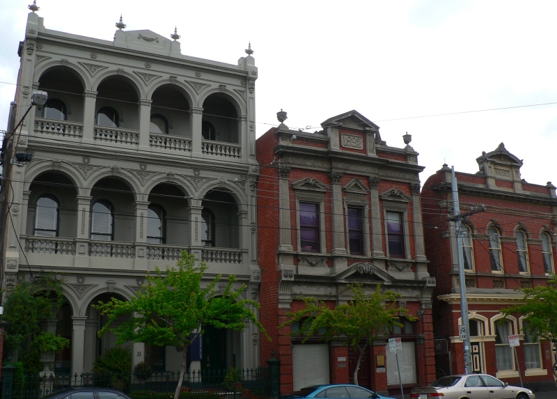 High Victorian Architecture in Brunswick Street, Fitzroy.